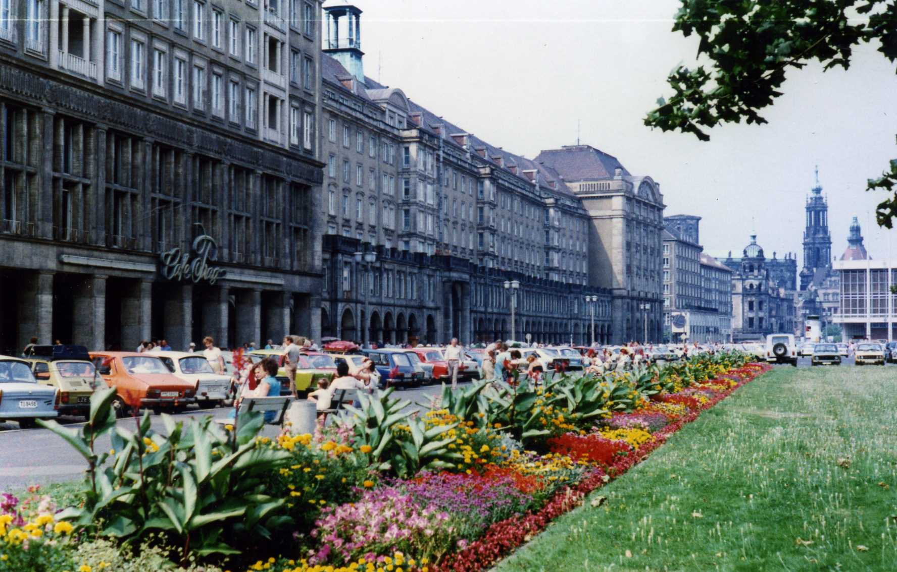 Dresden in lovely ORWO colour 1988